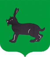 Coat of Arms of Kopys (Vorsha district, Vitsiebsk Voblast, Belarus)